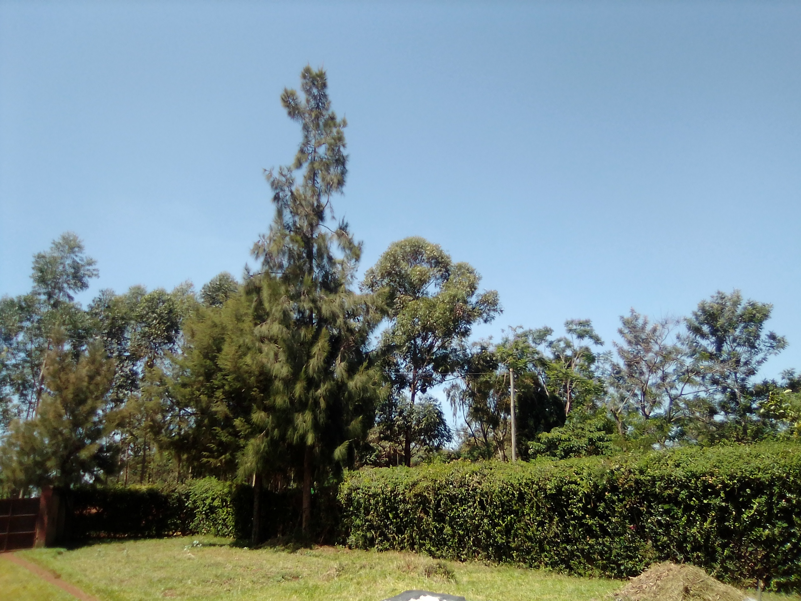 The pines in Siaya tend to grow in Cornish shape,with other branches sticking out tho and therefore not making perfect corn shape....this characteristic is however not related to environmental factor... This makes it hard for many in Siaya to get Christmas trees This is an image with the theme "Africa on the Move or Transport" from: Kenya